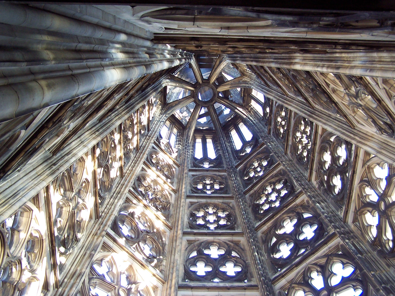 Cologne Cathedral Inside Spire